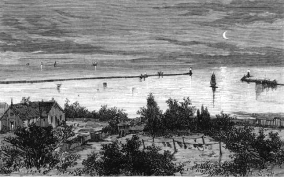 The Ottoman (now Romanian) port Sulina, on the Mouth of the Danube.